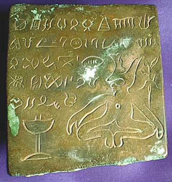 Longest Indus script inscription (colour)